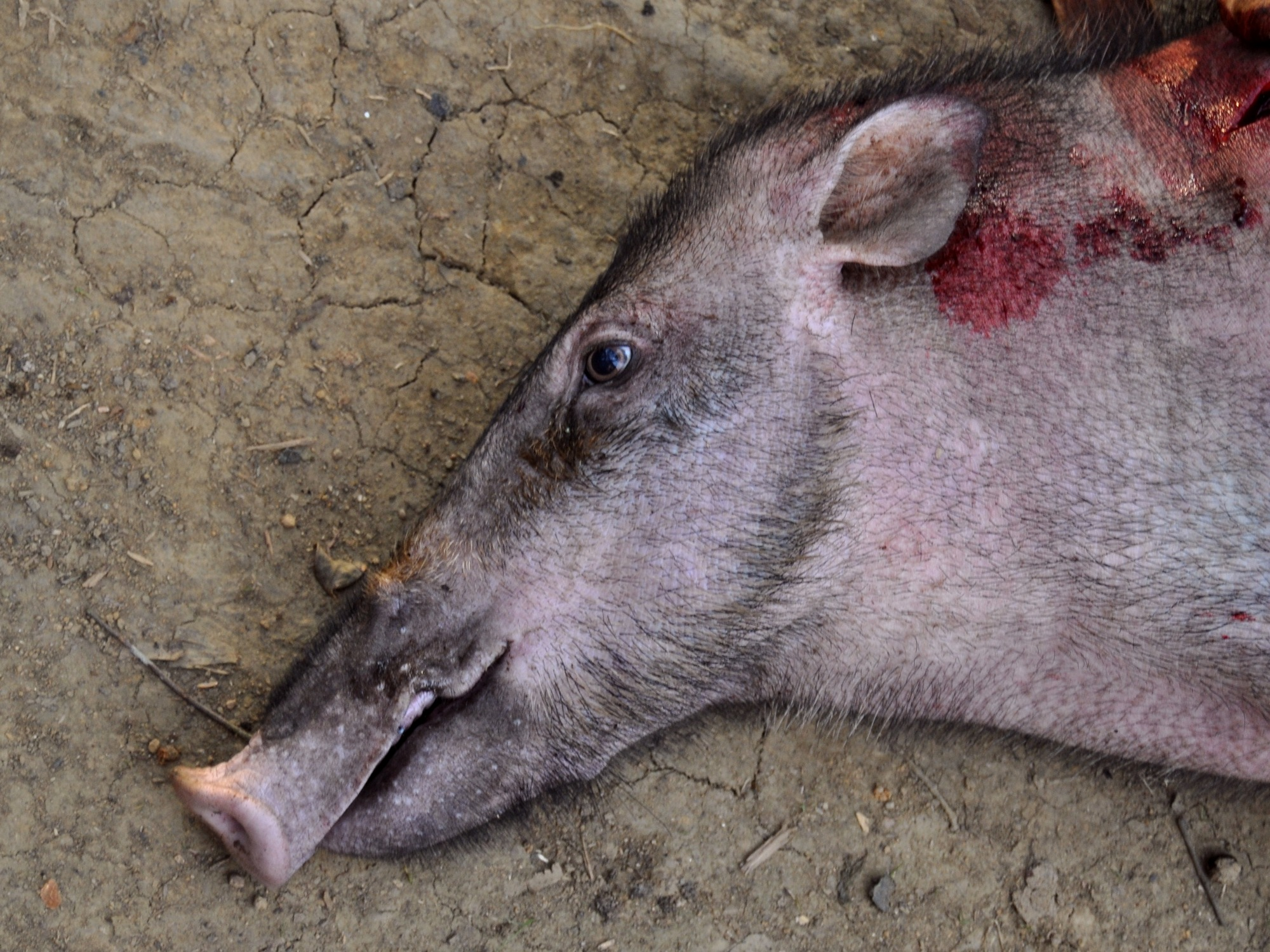 Bornean bearded pig (Sus barbatus), hunted by Dayak Pawan people in Ketapang Regency, West Kalimantan.